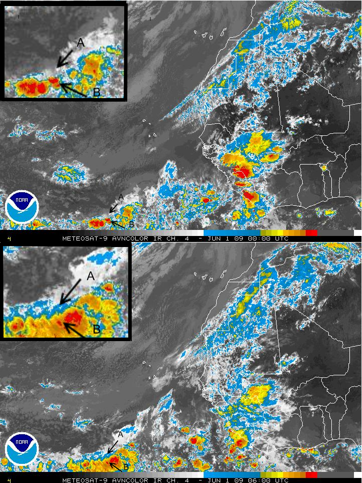 NOAA Satellite and Information Service satellite view of Eastern Atlantic Ocean, showing IR variation on 0000 and 0600 GMT (UTC) on 1 June 2009. Inset images detail area where AF 447 fell. A is the last known position of the aircraft, and B is where the debris were found. (The positions were marked using as reference the latitude/longitude lines optional in the original NOAA images)